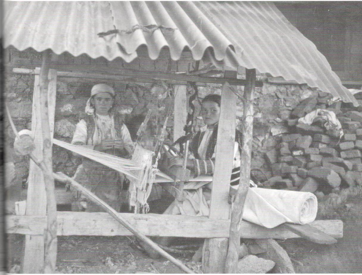 Girls from Macedonia knitting on a loom